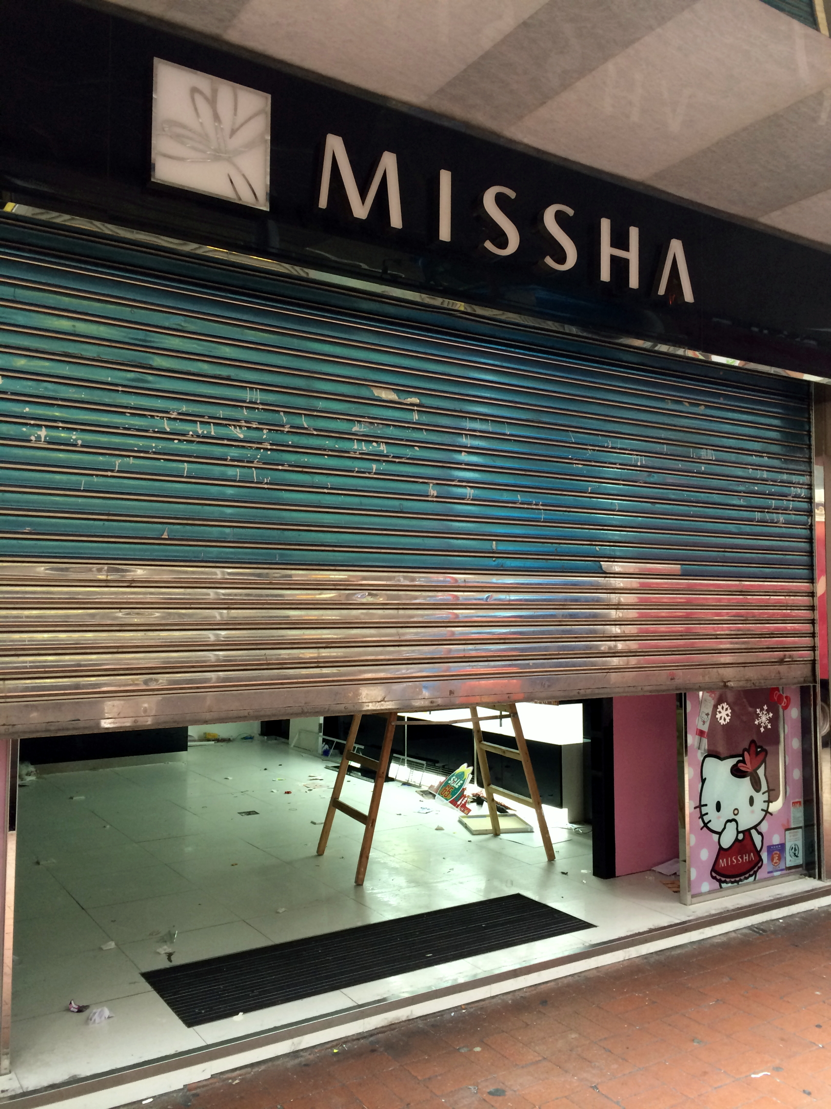 Missha closed in Hong Kong